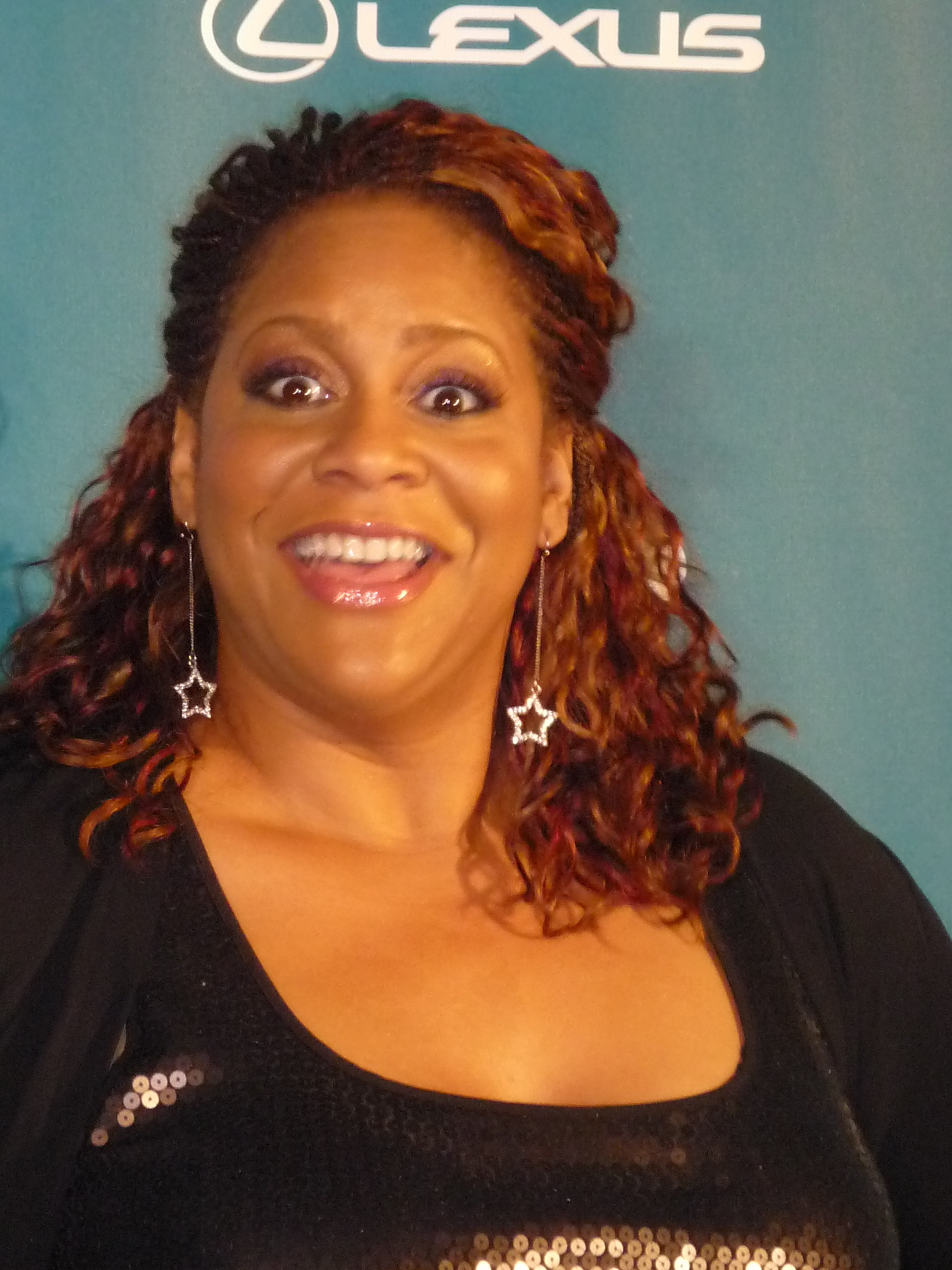 American actress Living Single star Kim Coles at the GLAAD Tidings event.